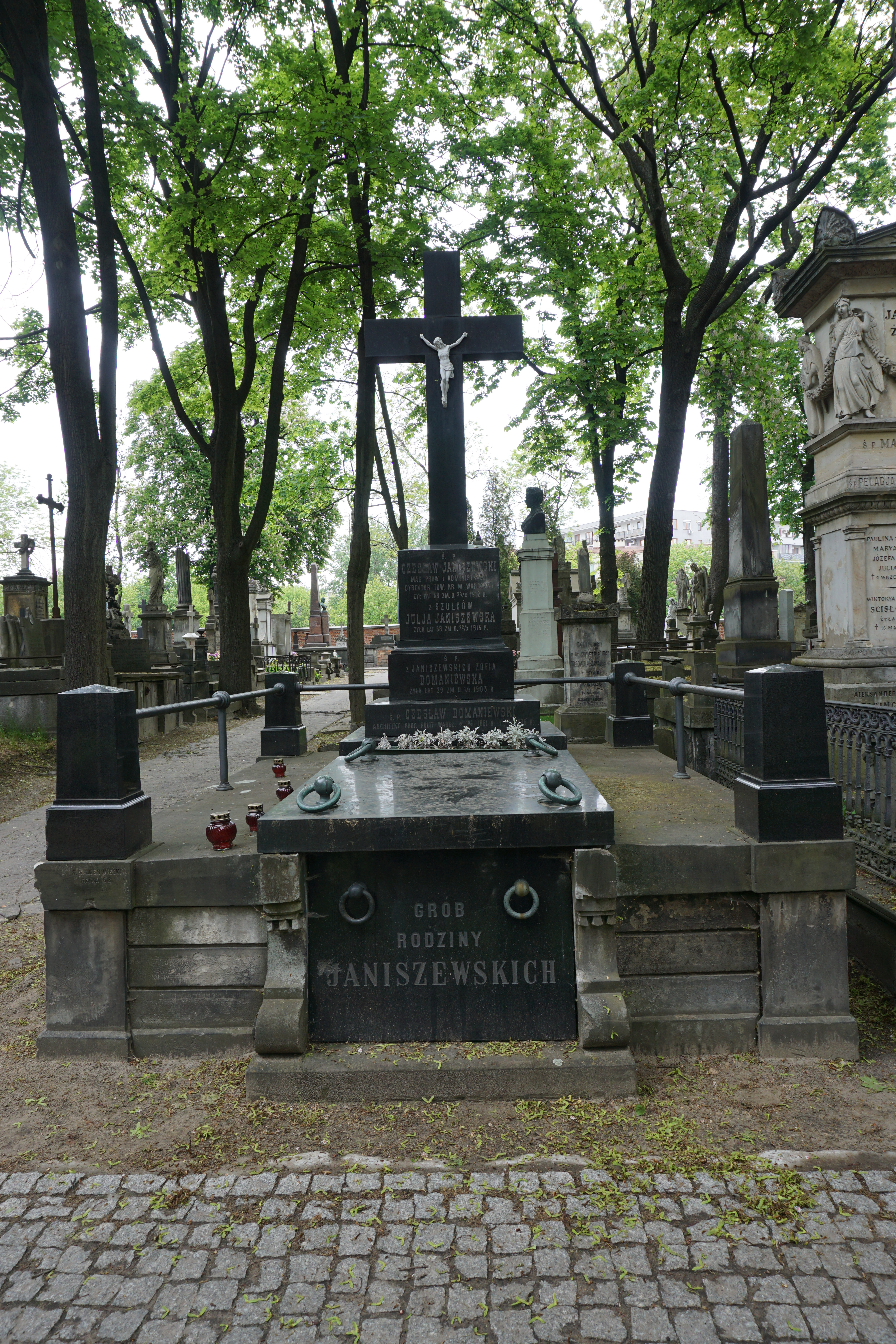 The grave of Czesław Domaniewski at the Powązki Cemetery (section 19, row 6, grave 29)